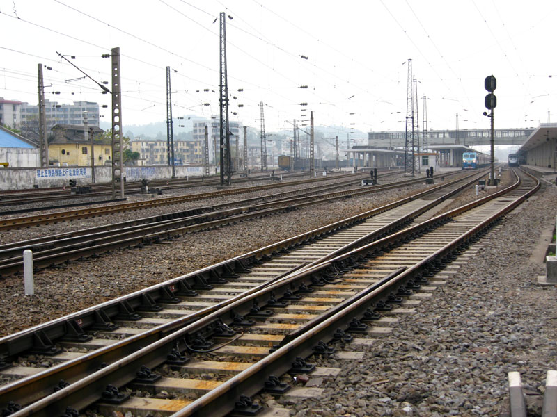 Shaoguan Railway Station in China